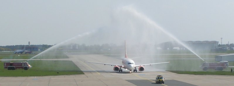 Arrival of the first easyJet-plane, from Liverpool, at the new base Berlin at 2004, April 28th.